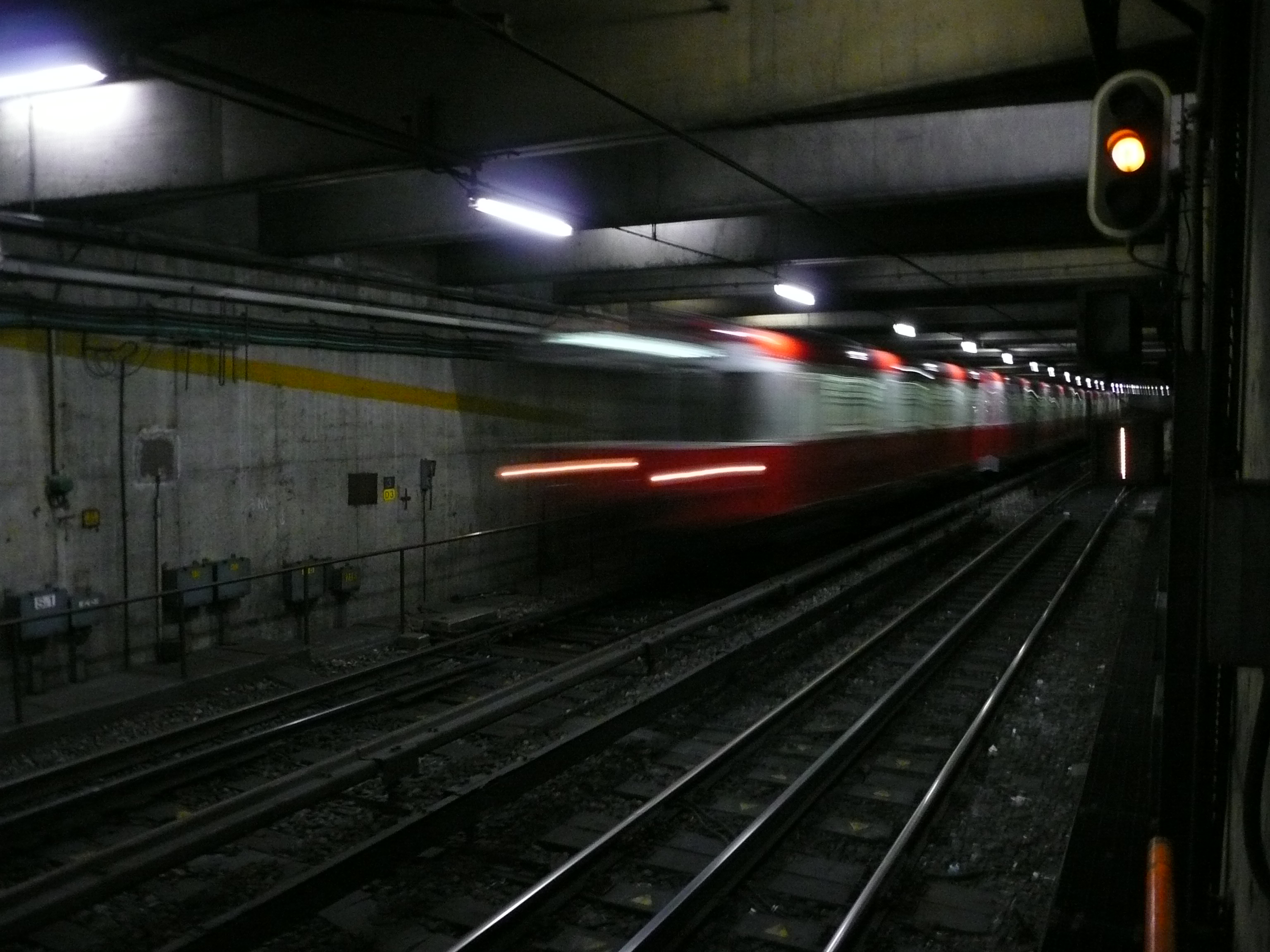 A Milan metro (subway / underground) train approaching a station - the slow shutter speed of the rather dark tunnel results in the train being somewhat blurred.